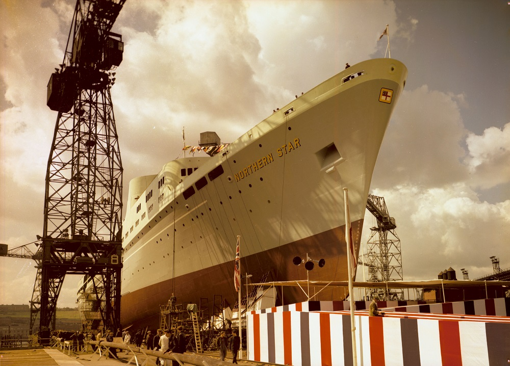 Launch of the passenger ship "Northern Star"